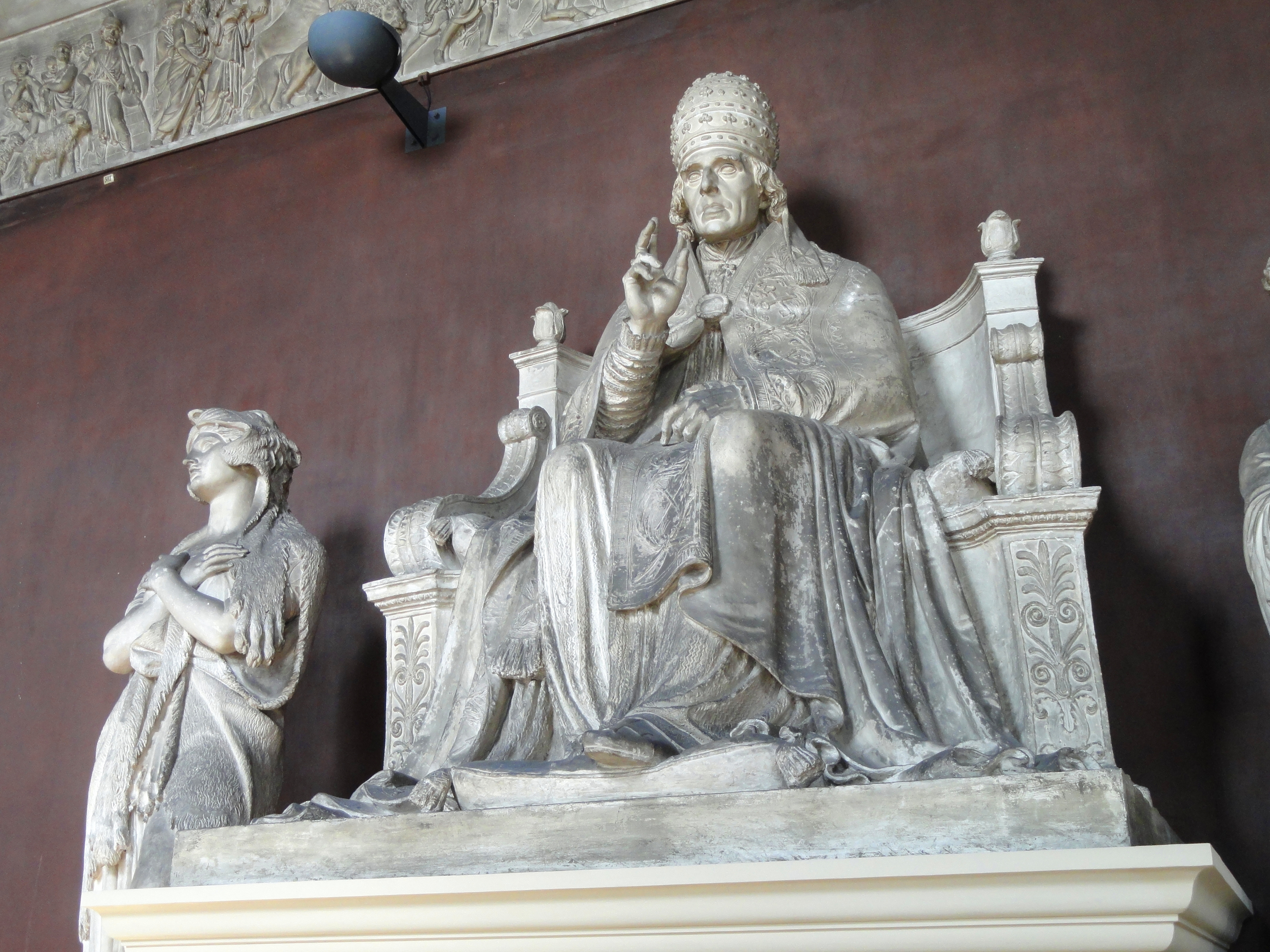 Sculpture in Thorvaldsens Museum, Copenhagen, Denmark. Sculptor: Bertel Thorvaldsen (c. 1770-1844). This artwork is now in the public domain because the artist died more than 70 years ago.